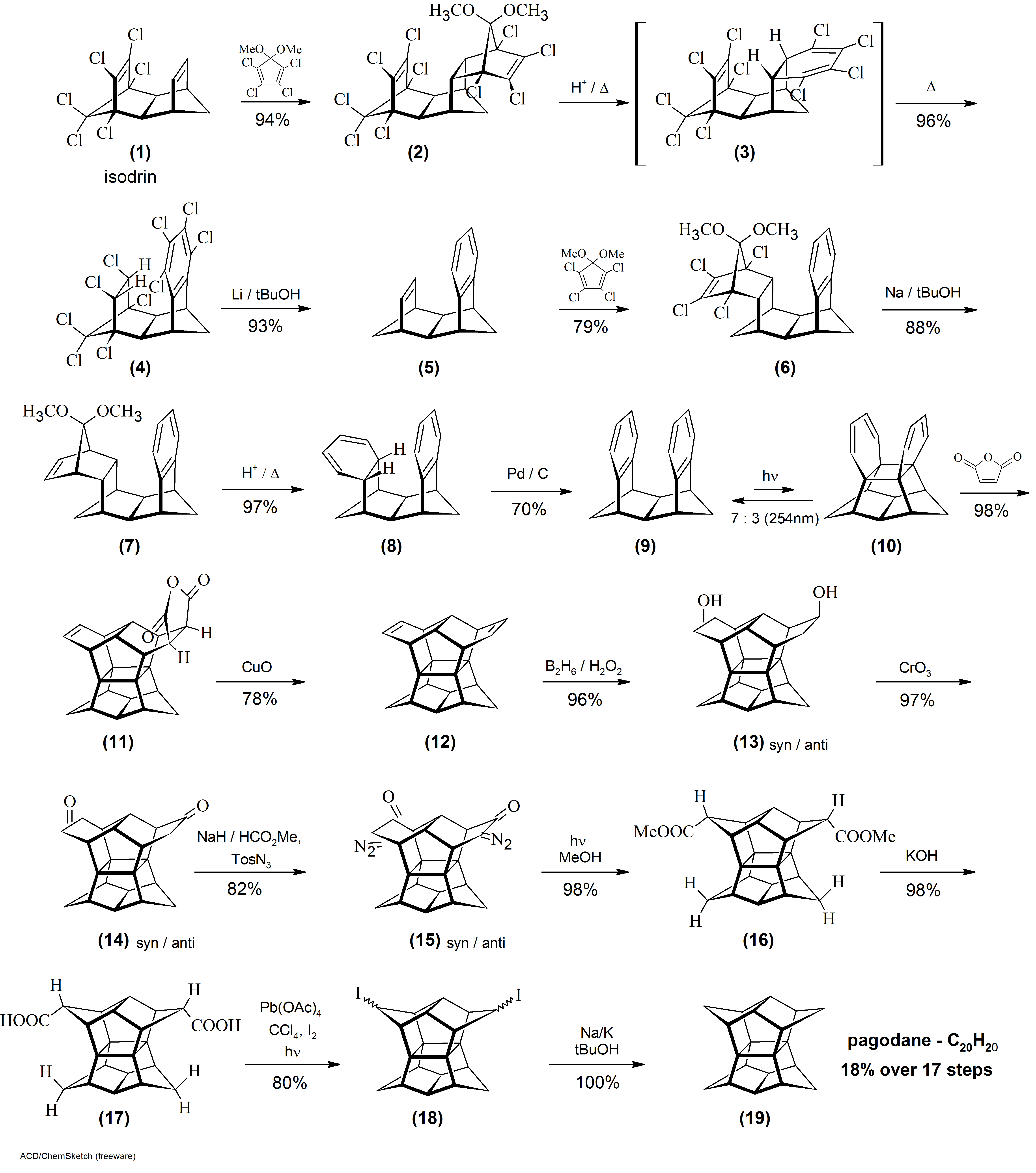 Synthesis of pagodane starting from isodrin